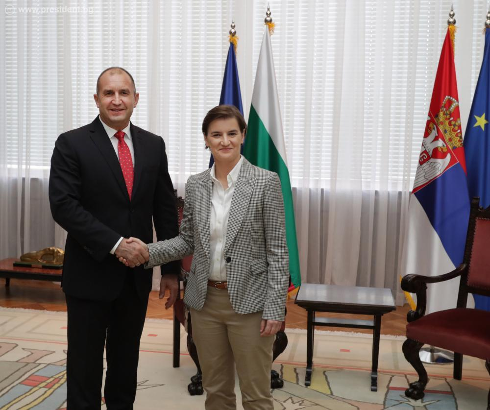 Official visit of President Rumen Radev to the Republic of Serbia.